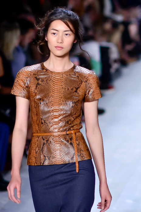 A model walks the runway at the Michael Kors Spring/Summer 2014 show at New York Fashion Week, September 2013.